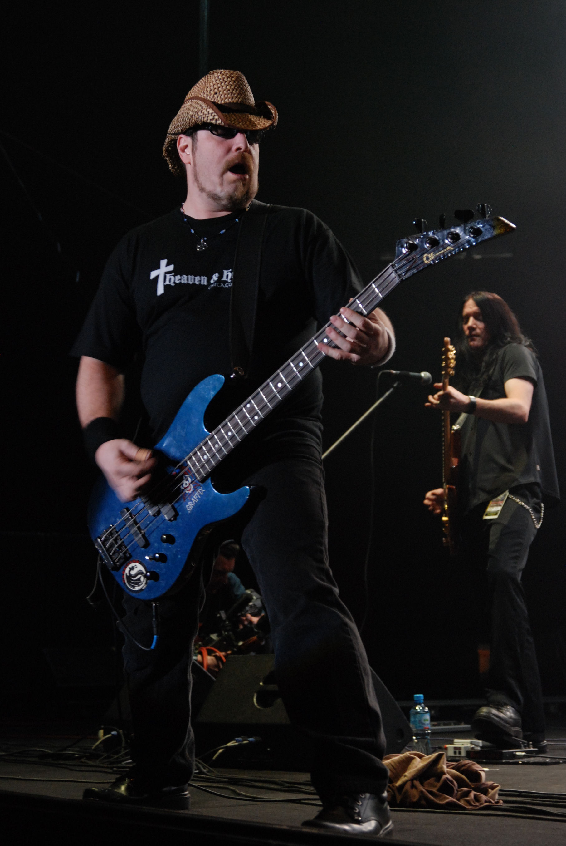 Jason Ward from Flotsam&Jetsam during Metalmania 2008 festival